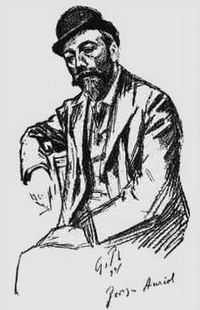 George Auriol (~1894-95) par Georges Redon (Jules Georges Redon) illustrant un article de Henri de Weindel dans «Le Rire», N° 12 (janvier 1895)